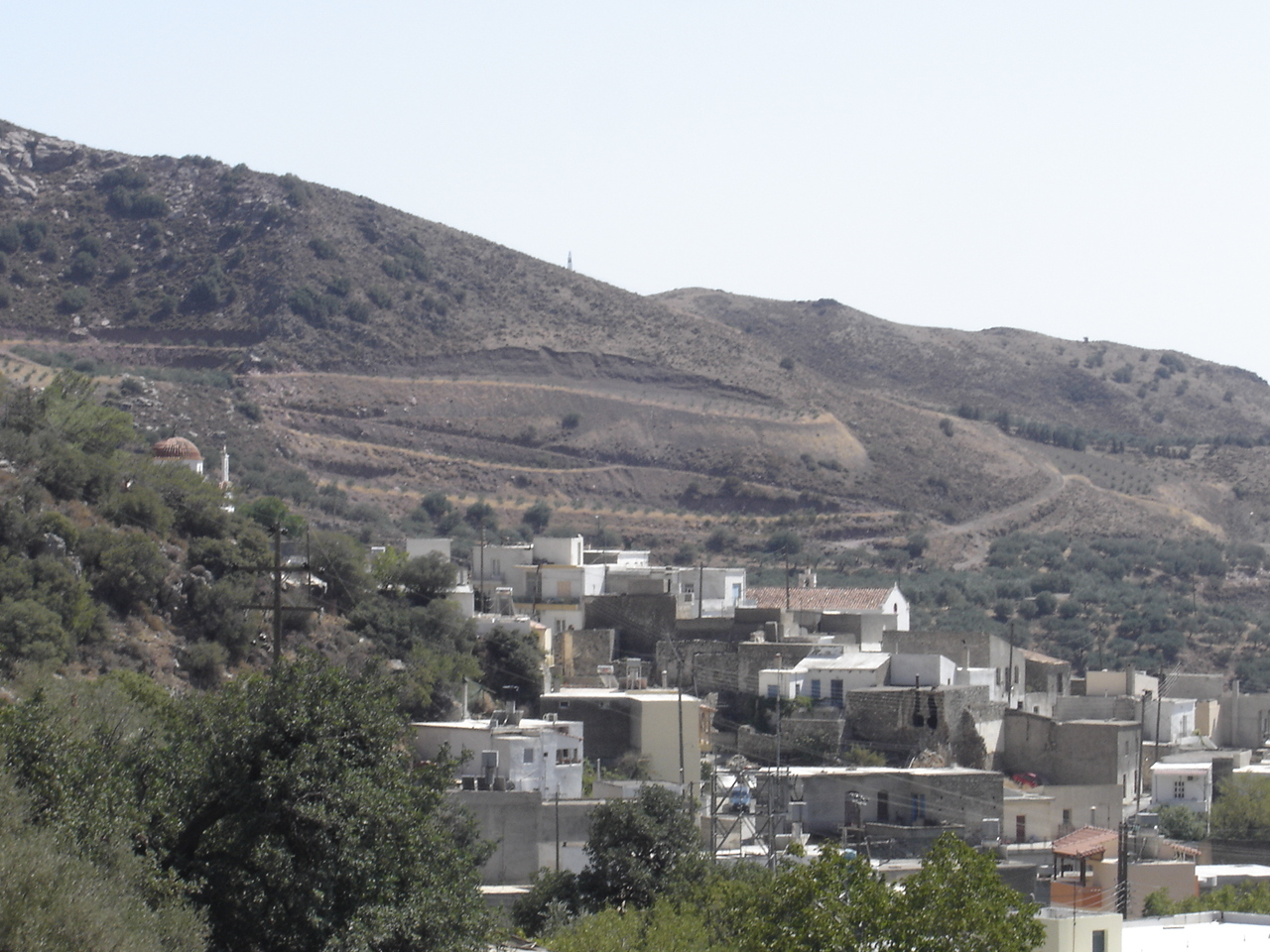 A view of Ano Viannos.